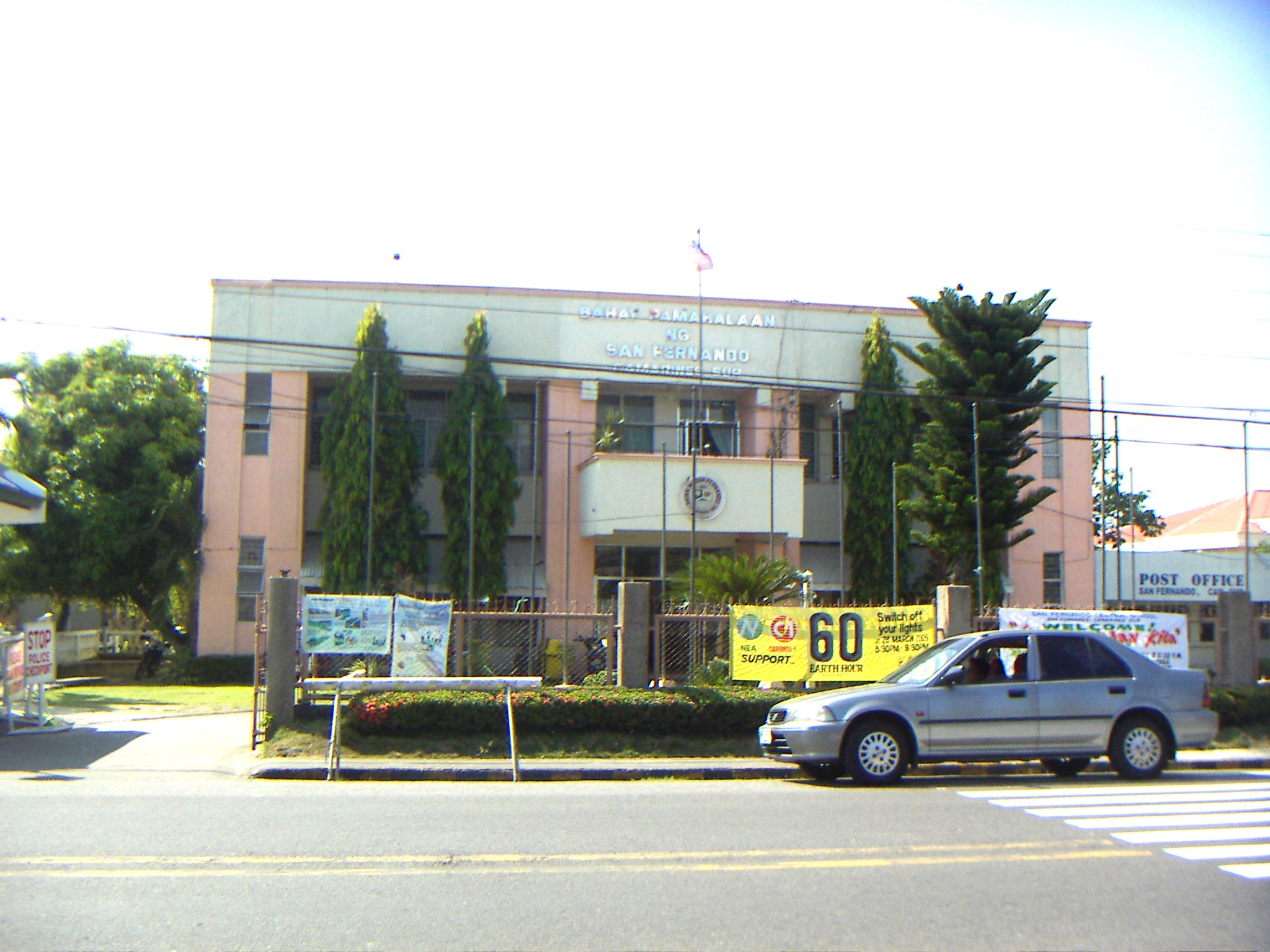 Municipal building of San Fernando, Camarines Sur, Philippines